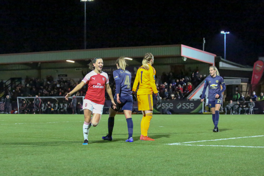 2018–19 FA Continental Tyres League Cup semi-final: Arsenal WFC v Manchester United WFC – Katie McCabe of Arsenal WFC celebrating after the team's first goal.